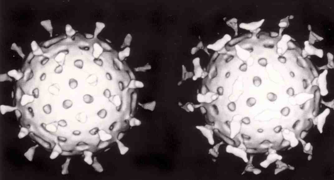 A computer reconstruction based on cryo-electron micrographs of a rotavirus particle (A) and a rotavirus particle reacted with a monoclonal antibody (B)